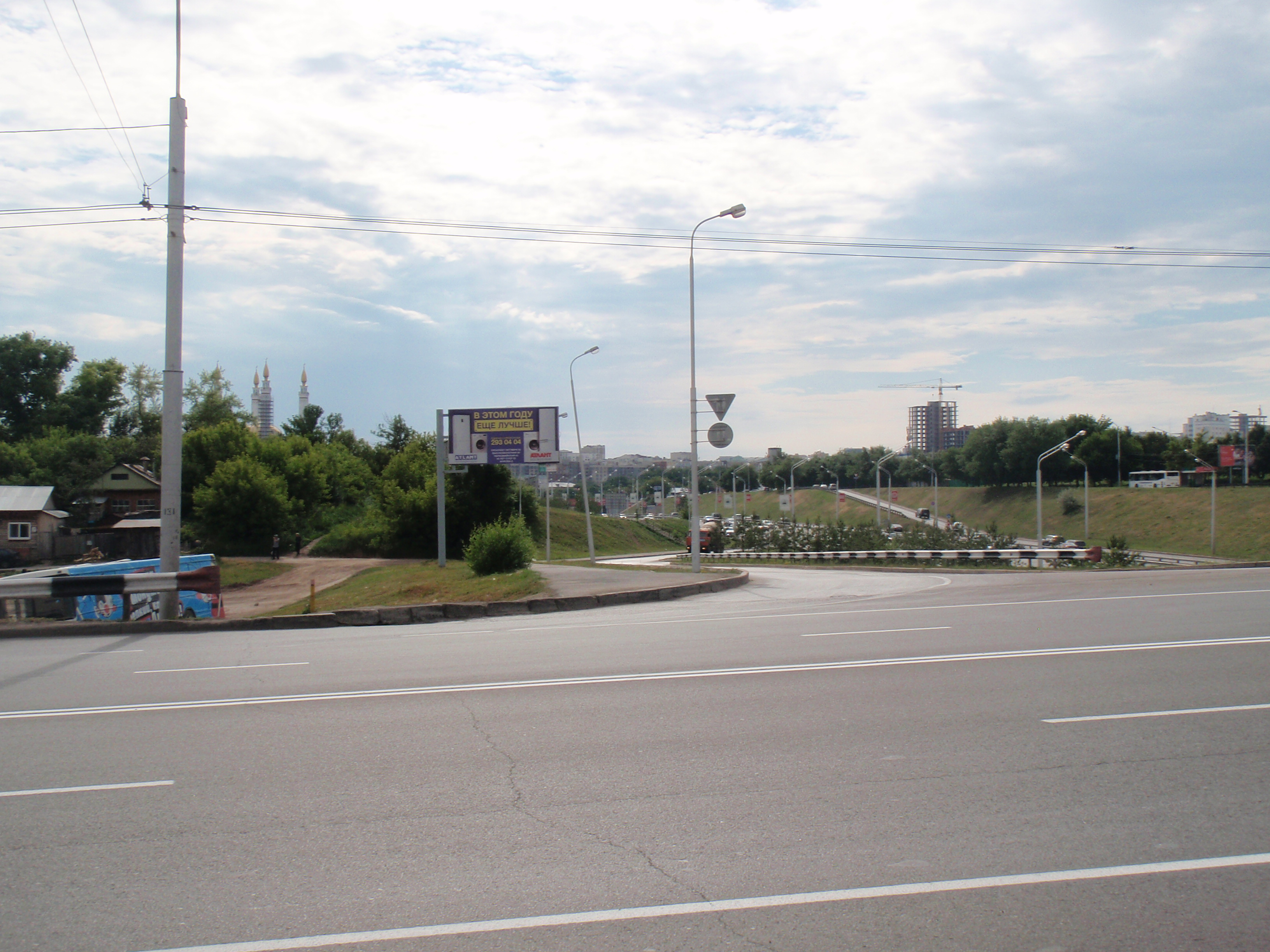 Crossroad in Ufa, Russia.